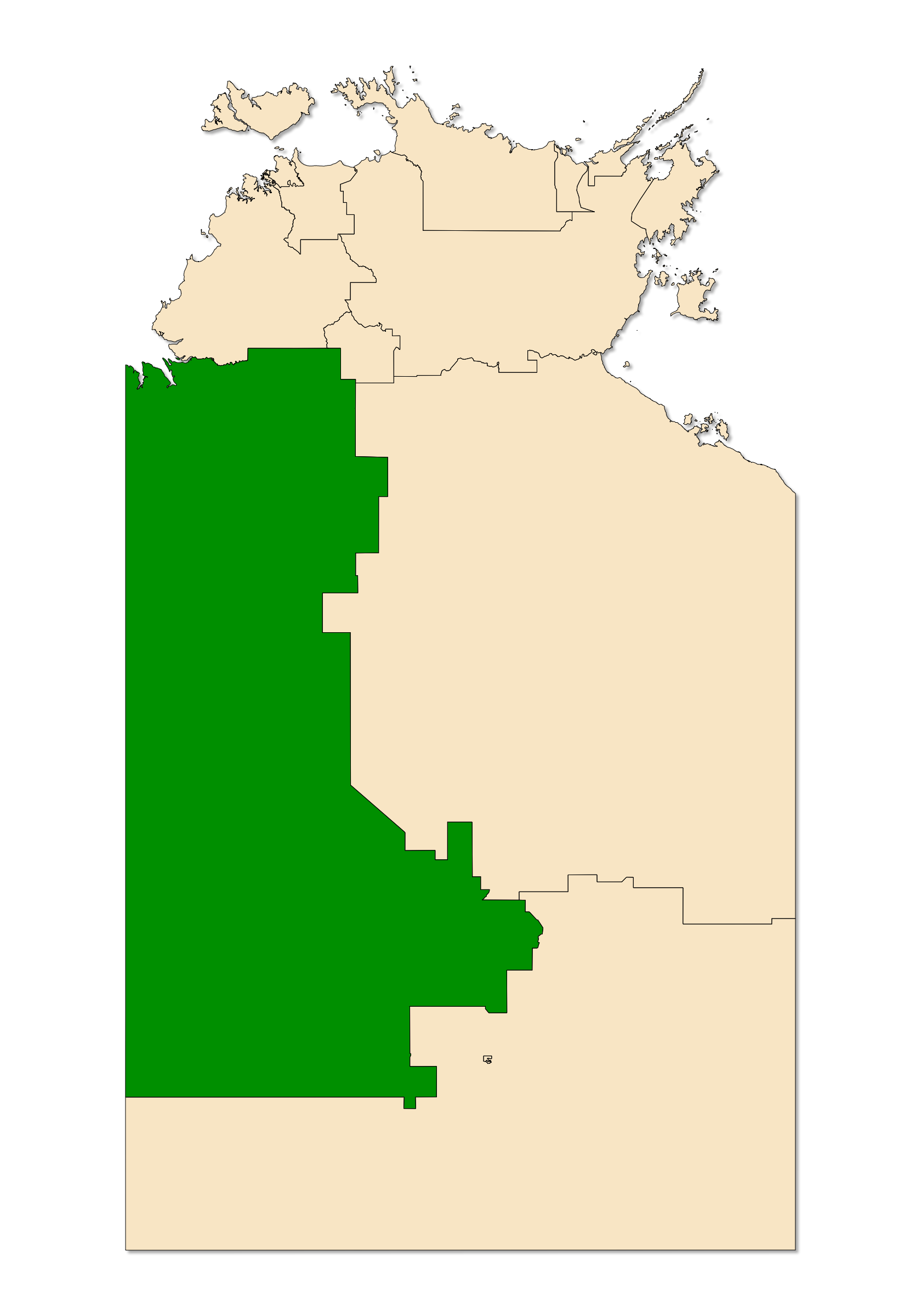 Location of the electoral division of Stuart in the Northern Territory, Australia.